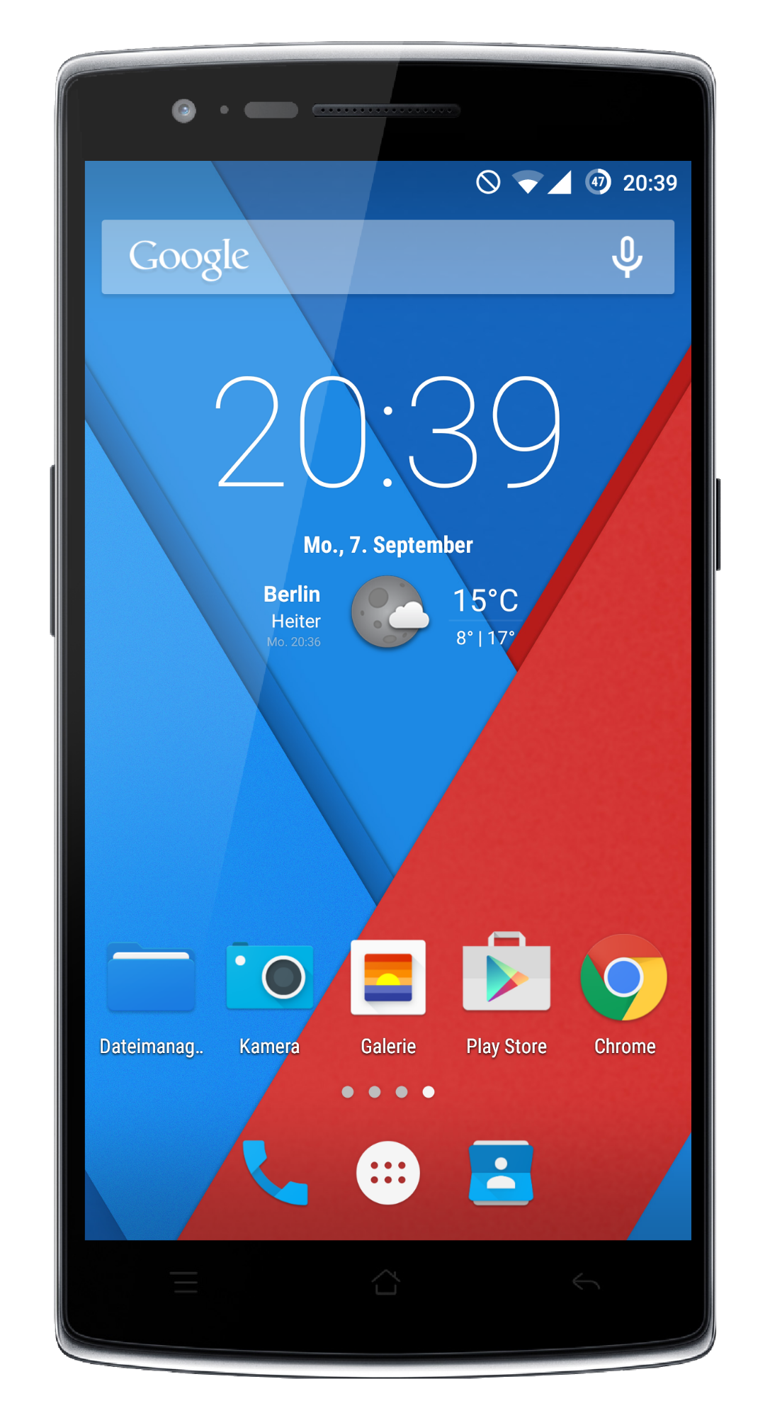 OnePlus One